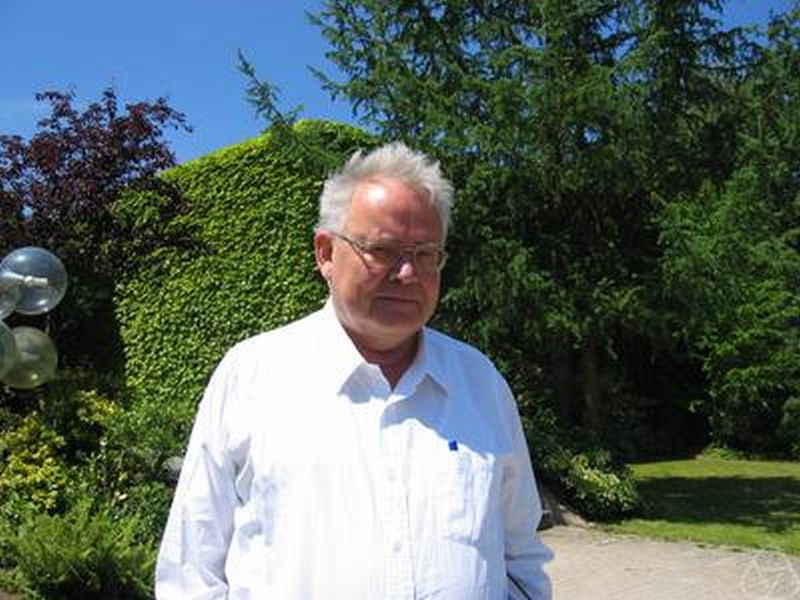 Stefan Hildebrandt, Oberwolfach 2004